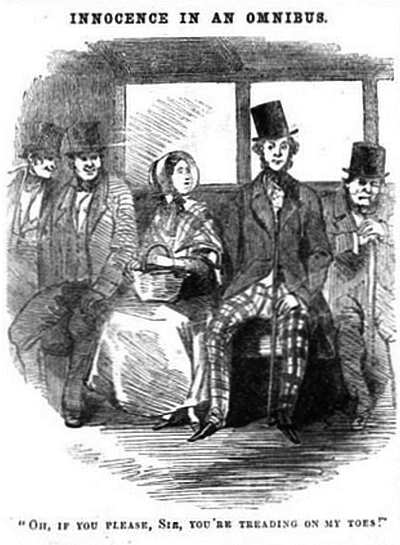 Title: Innocence in an Omnibus, Caption; "Oh, if you please, sir, you're treading on my toes." (derived from File:Innocence in an Omnibus.png)